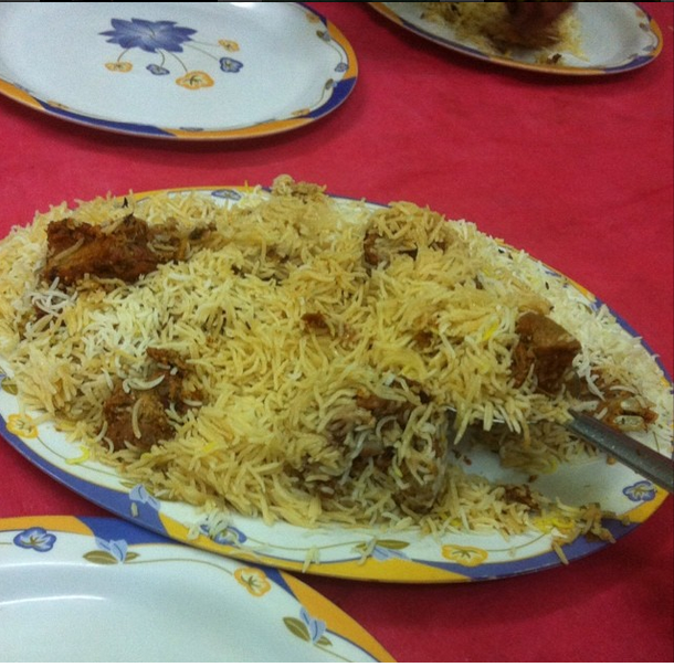 Hyderabad Fish Mandi, one of the famous dish in the old city available throughout hyderabd